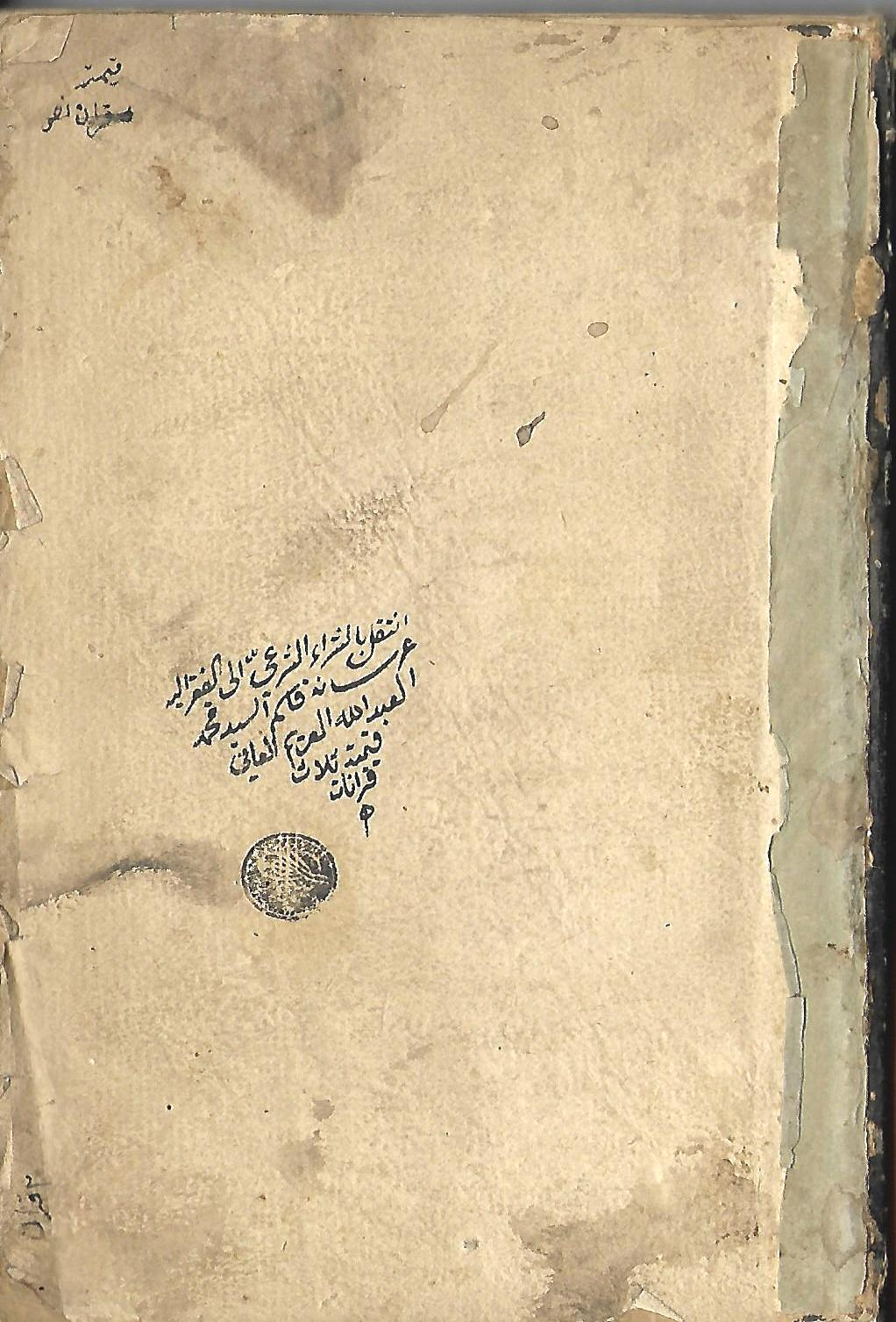 Old manuscript cover with the seal of (Sheikh Mullah Qasim Effendi Al Mufti) and mentioned that he bought it from the market in Baghdad in 1257 AH / 1841. the book is about The Explanation of the (alrisalat alshamsiat) in Logical Rules, a letter written by (Najm al-Dīn al-Qazwīnī al-Kātibī) (600-675 AH) in the rules of Aristotelian logic. The manuscript is from the collection of books by (Mullah Qasim Effendi Al-Arim Al-Ani). The scribe mentioned that he wrote it in 1043 AH / 1633